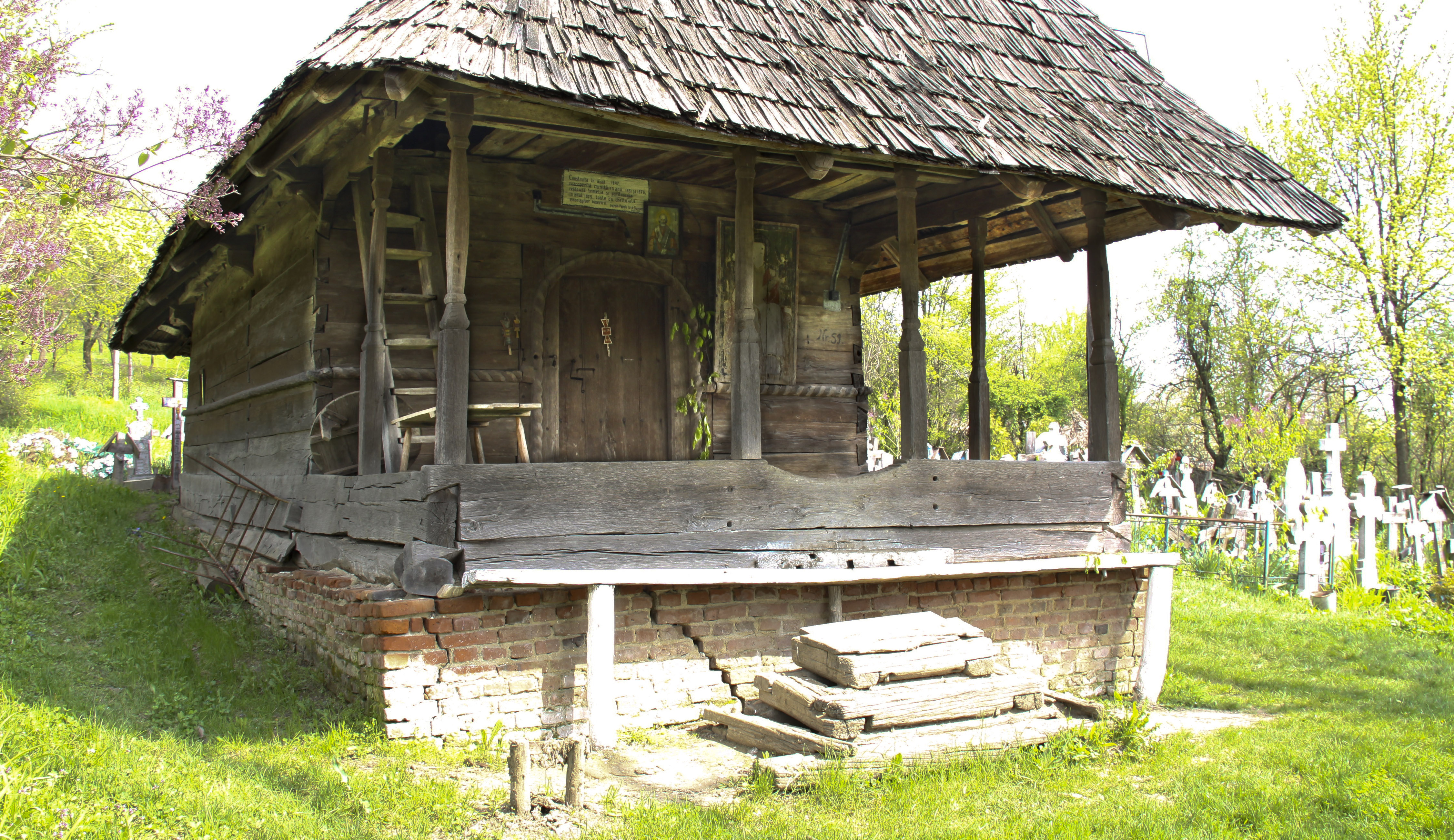 Olteanca-Chituci, Vâlcea county, Romania: the wooden church.